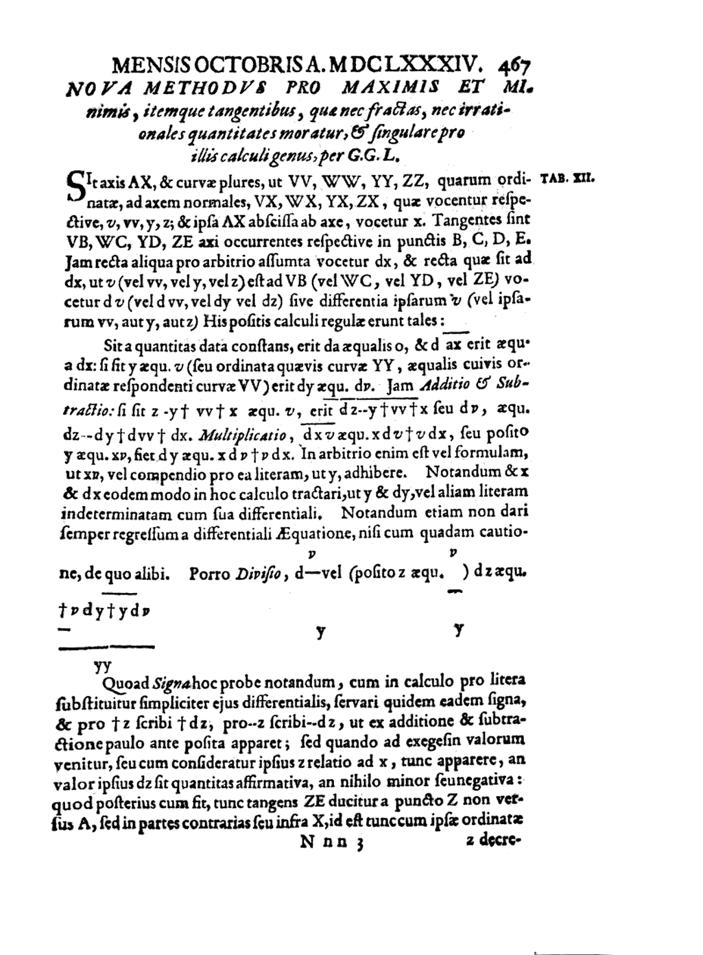 The first page of the article by G.W. Leibniz "Nova Methodus pro Maximis et Minimis" (New method for maxima and minima), Acta Eruditorum, 1684, October, p. 467. Leiniz' publication of the calculus